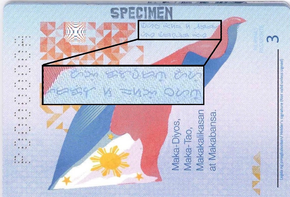 Zoom-in on the Baybayin displayed in the Philippine passport (2016 edition)